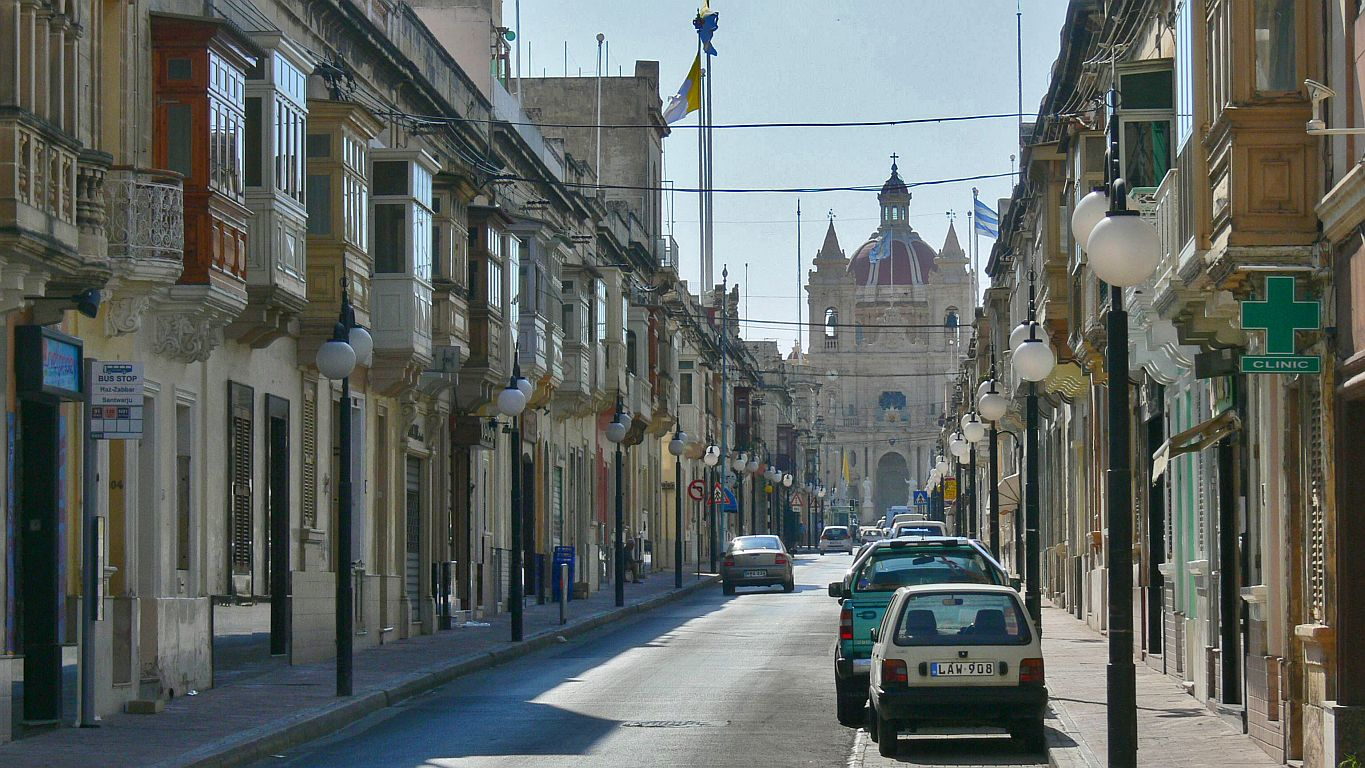 Triq is-Santwarju (Sanctuary Street), Ħaż-Żabbar, Malta